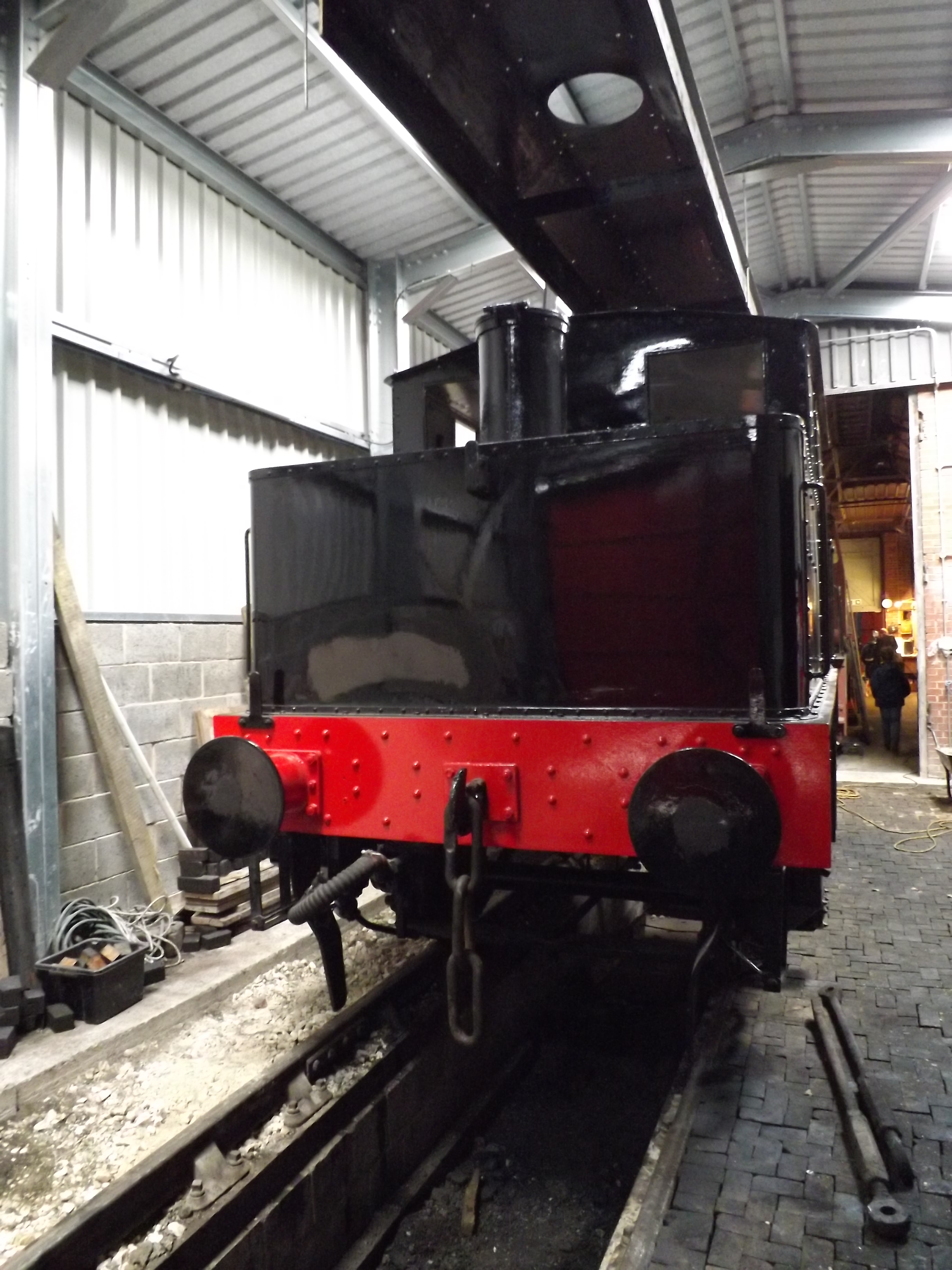 Sentinel Waggon Works 4wVBT No. 68153 nearing completion at the Middleton Railway.